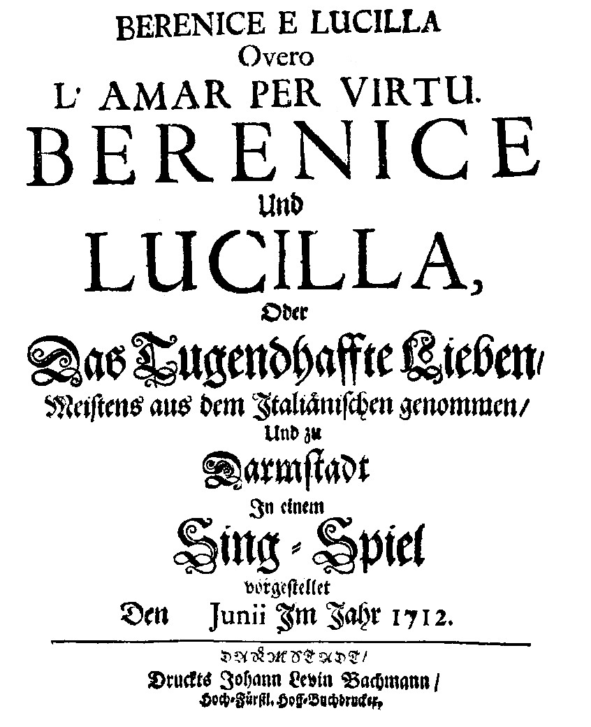 Christoph Graupner - Berenice und Lucilla - titlepage of the libretto from 1712